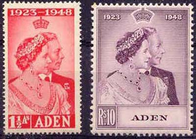 Aden Scott #30 & #31, 1949 Royal Silver Wedding